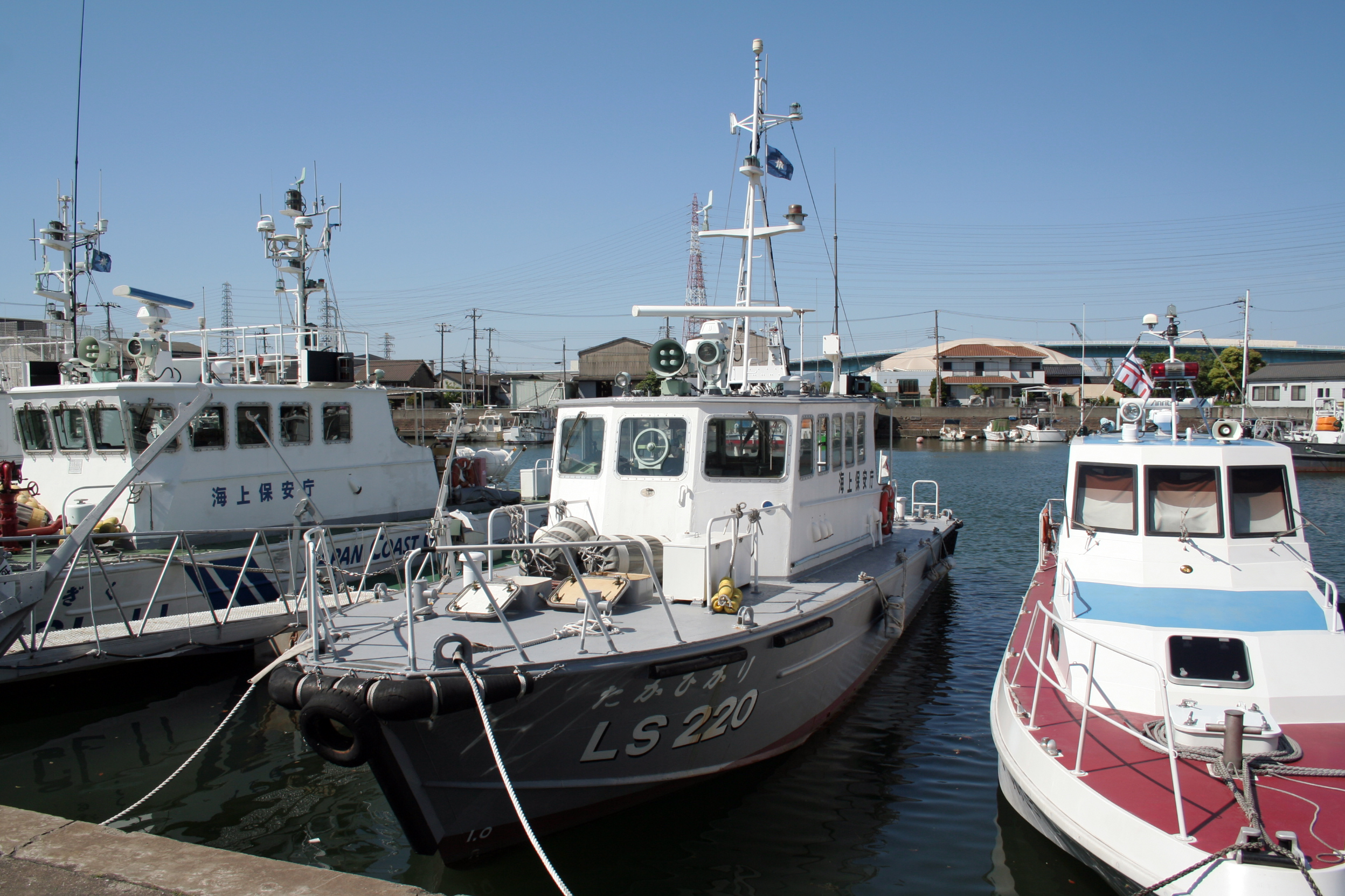 LS-220 TAKAHIKARI, the 4th boat of the HATSUHIKARI class Light-House Service Boat of the Japan Coast Guard.